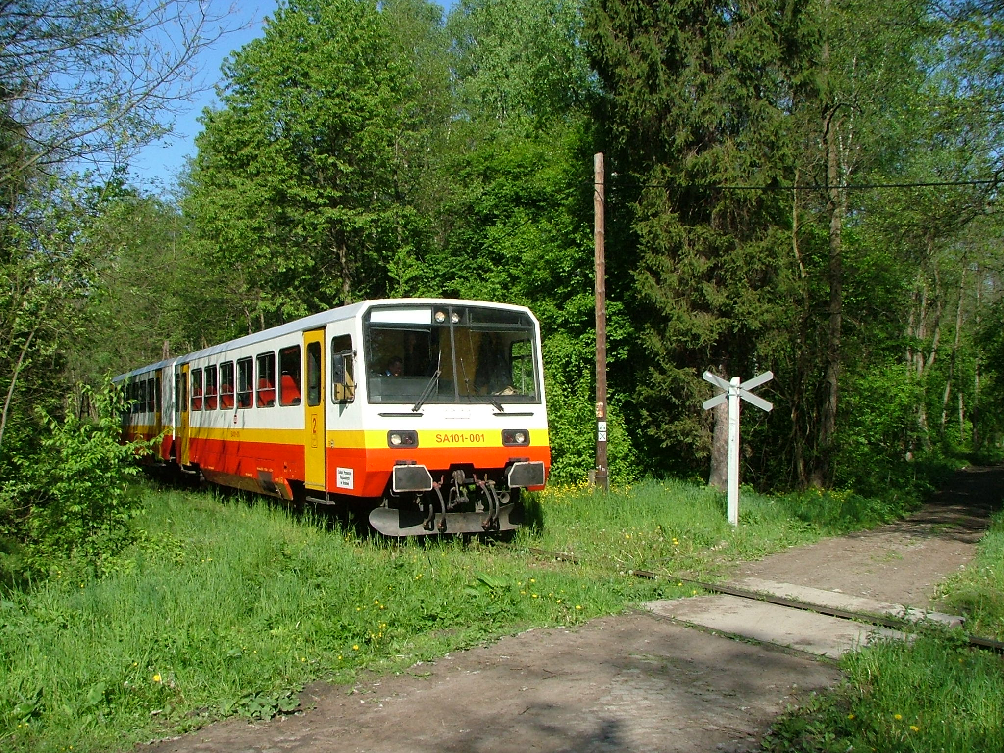 Siding (rail) to Zalas Mine of Porfir.